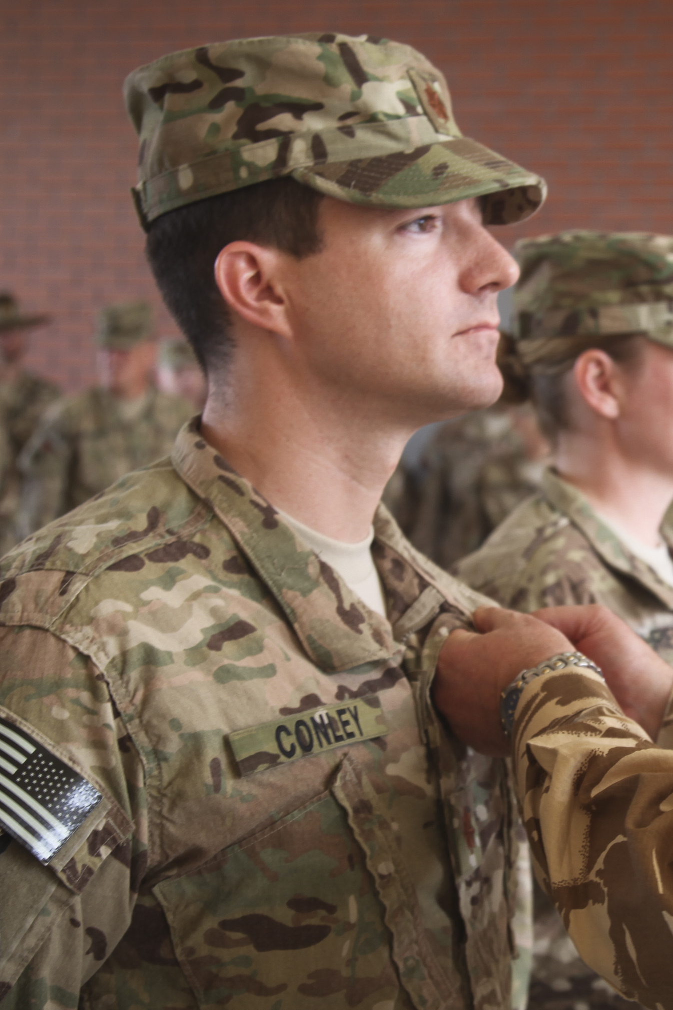 Lt. Commander Sean Conley, a native of Doylestown, Pa., who serves as an emergency physician and department head of trauma for NATO Role 3 Multinational Medical Unit, receives the Romanian Emblem of Honor (Emblema de Onoare a Statului Major General) from the 20th Infantry Battalion, Black Scorpions commander, for his heroic actions in saving a Romanian soldier at Kandahar Airfield, Afghanistan, May 9, 2014. Conley and his team treated five Romanian soldiers injured in an improvised explosive device blast. (U.S. Navy photo by Lt. William Legg)